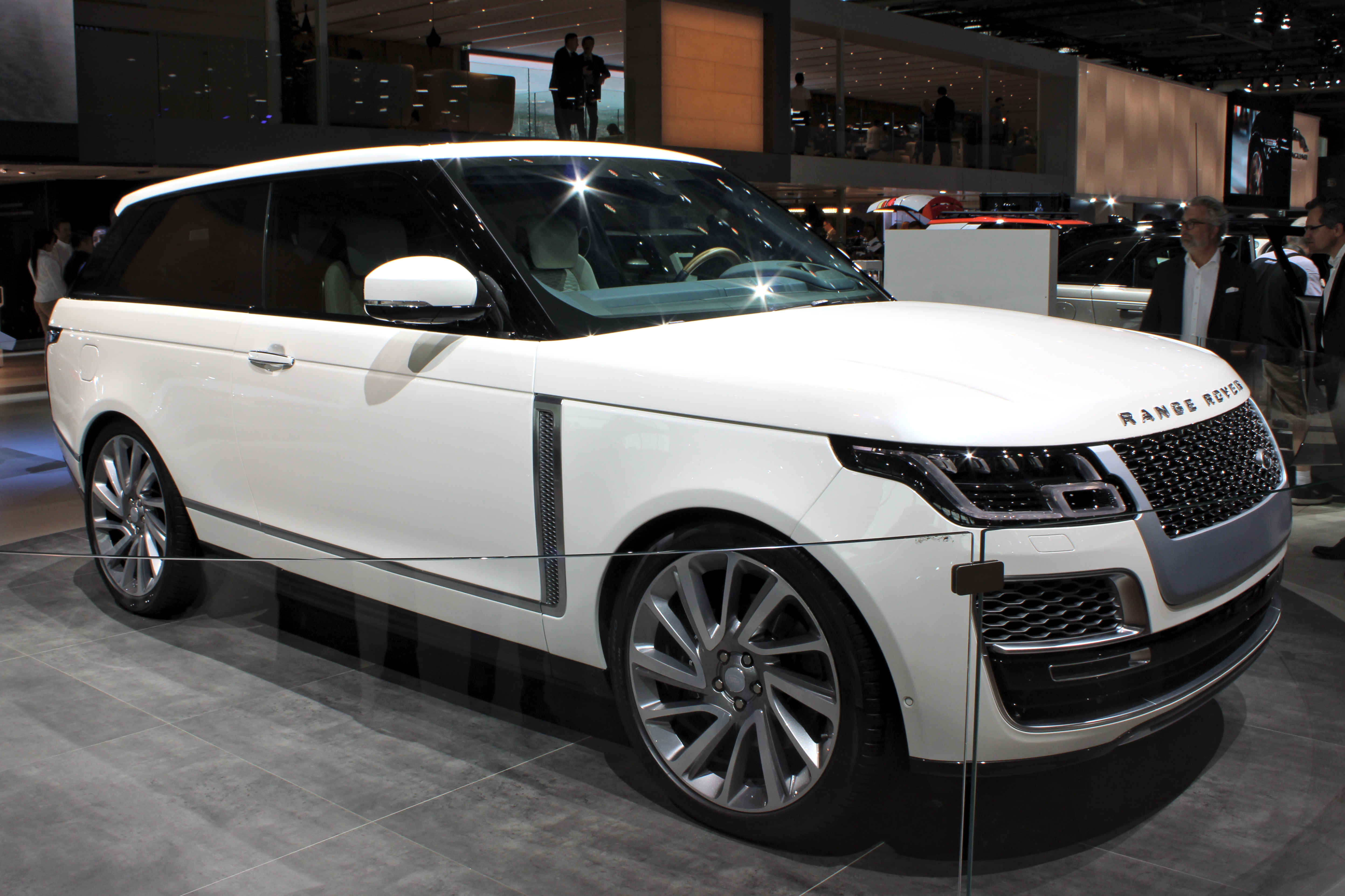 Range Rover SV Coupe at Paris Motor Show 2018